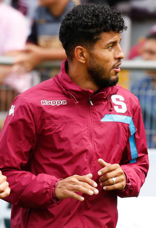 01-18-2018. David Ramírez and Johan Venegas training with Deportivo Saprissa.